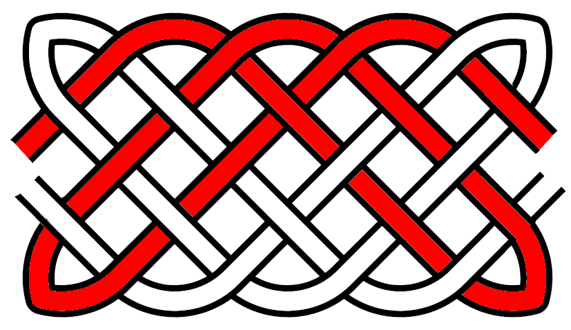 Large basket weave knot on 3x5 grid